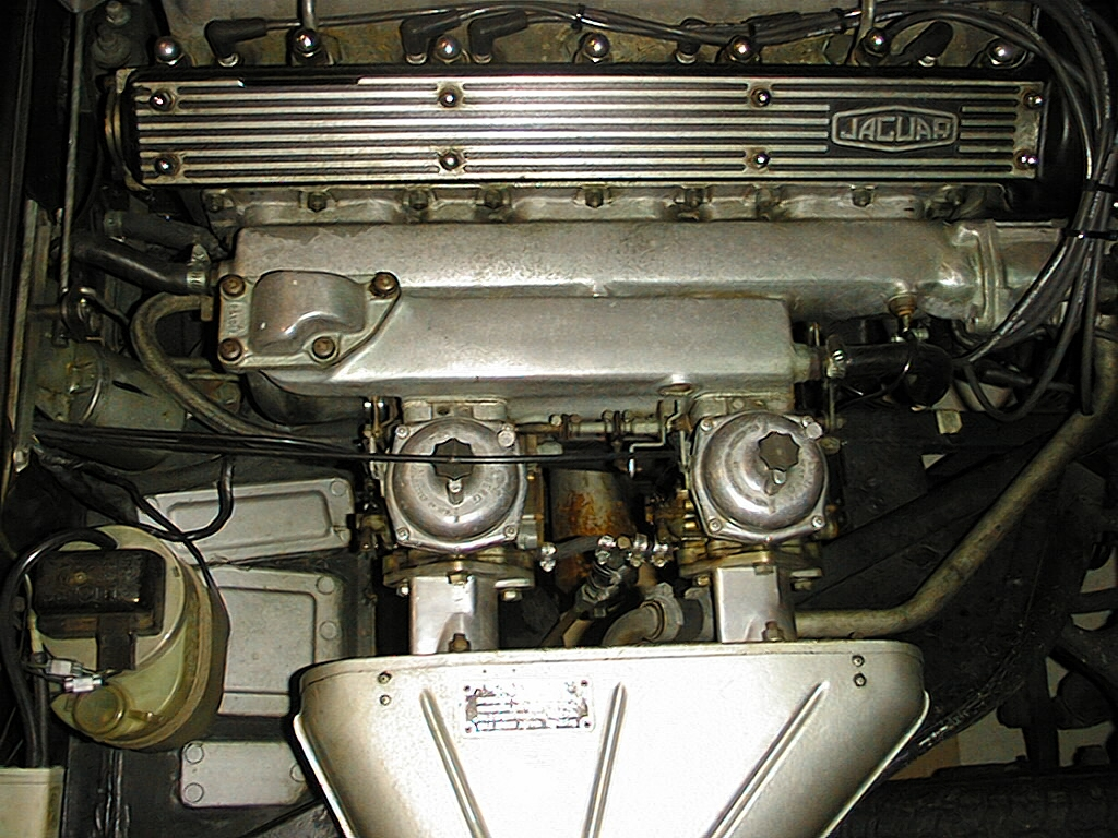 Stromberg carburetors as installed on a 1969 Jaguar E-type 6cyl 4.2l engine